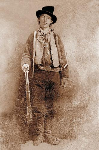 Billy the Kid (1859–1881).